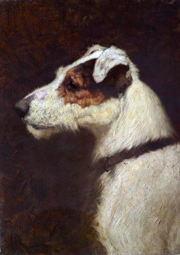 Douglas Fry (England, Australia 1872 – 10 Jul 1911)My best friend , 1910, oil on wood, 33.0 x 24.0 cm board; 50.5 x 41.9 x 4.2 cm frame.